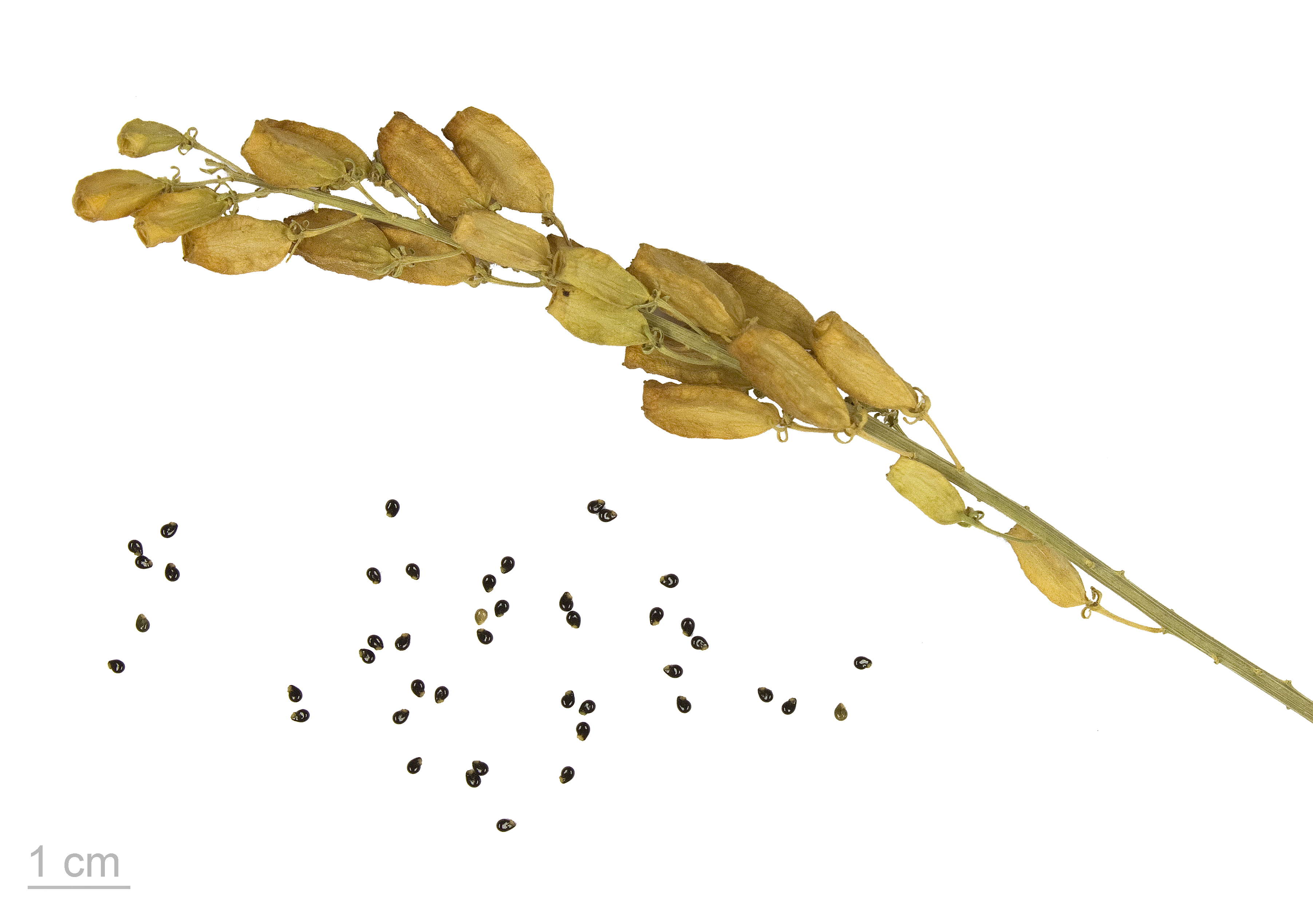 Wild Mignonette , fruits and seeds